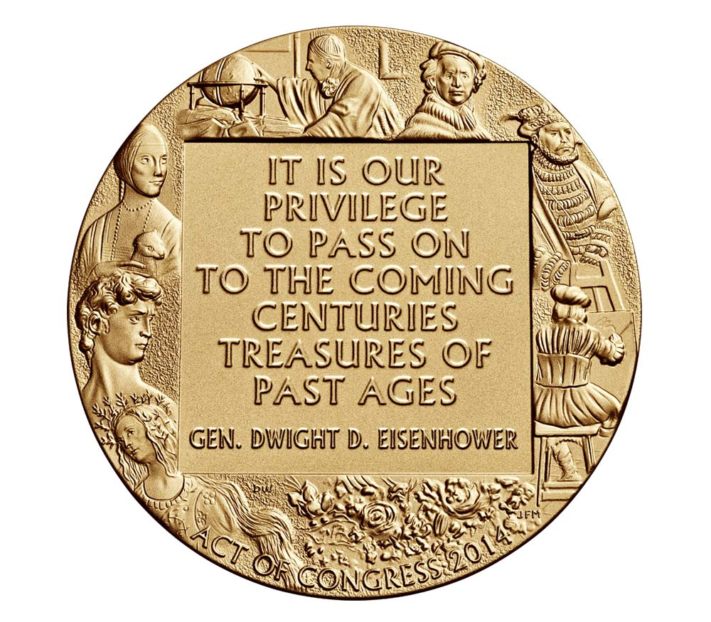 Obverse Designer: Joel Iskowitz Obverse Sculptor–Engraver: Phebe Hemphill Reverse Designer: Donna Weaver Reverse Engraver: Joseph Menna